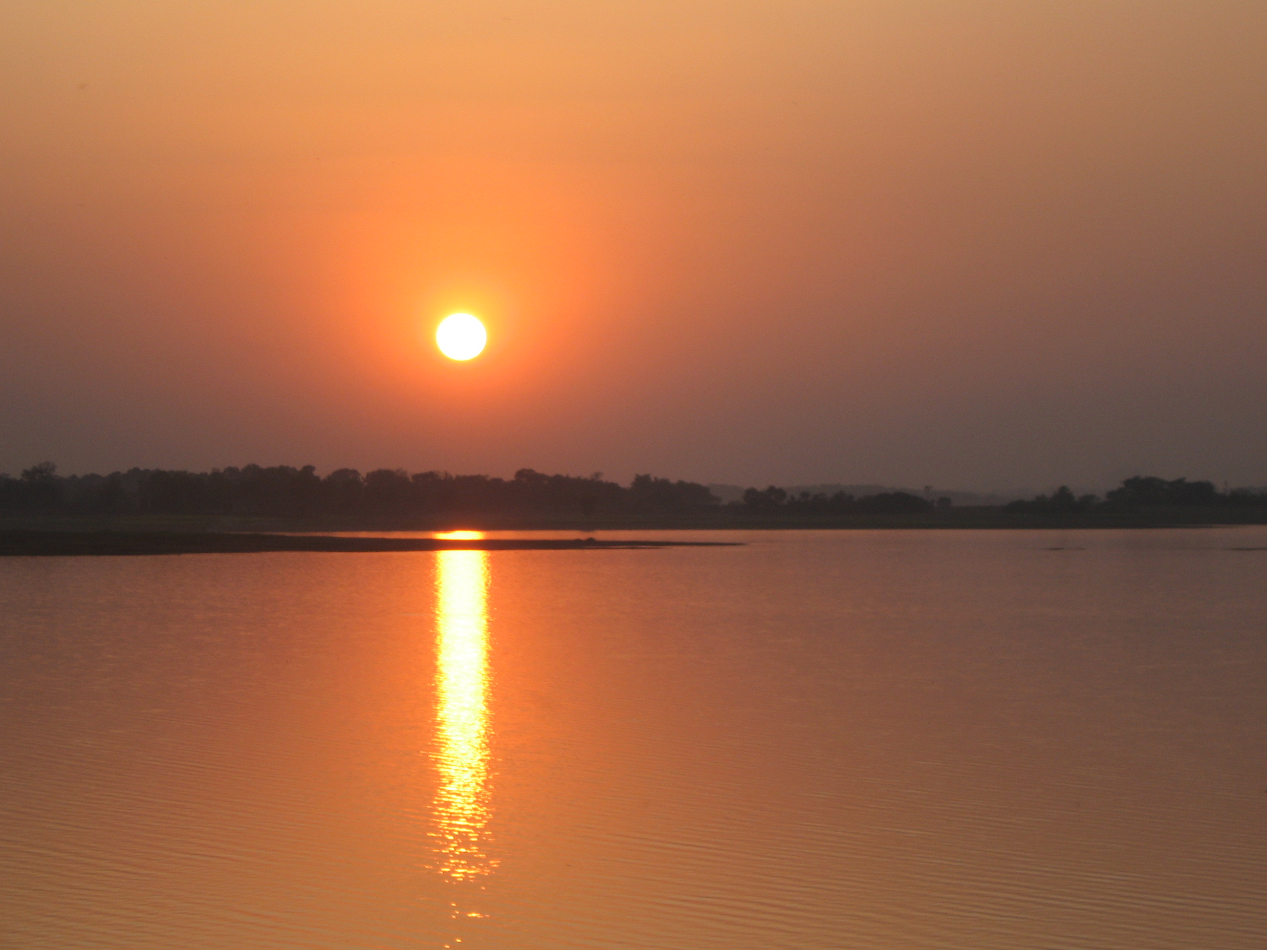 Sunset at Getalsud Dam on way back from Hundru Falls is breathtaking